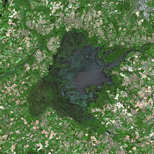 lac de Grand-Lieu see from satellite by SPOT ; This lake is located in west of France, at about ten kilometers south of Loire. It occupies a basin of low altitude and low depth. It is therefore only low water level (1.60m of water on average in summer, and about 4m max. In winter). Its size doubles in winter (from about 35 sq km in summer to 65 sq km in winter), which explains important ecological characteristics. The lake supports floating forests locally called levis, and it is ecologically highly inter-connected to the near marshes